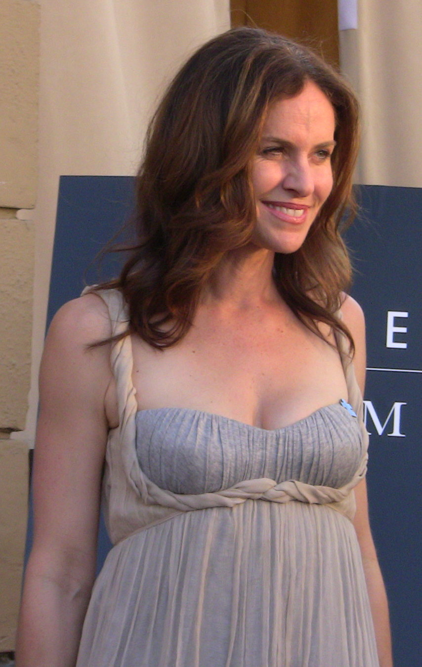 Actress Amy Brenneman at Heroes for Autism event, Hollywood, California.